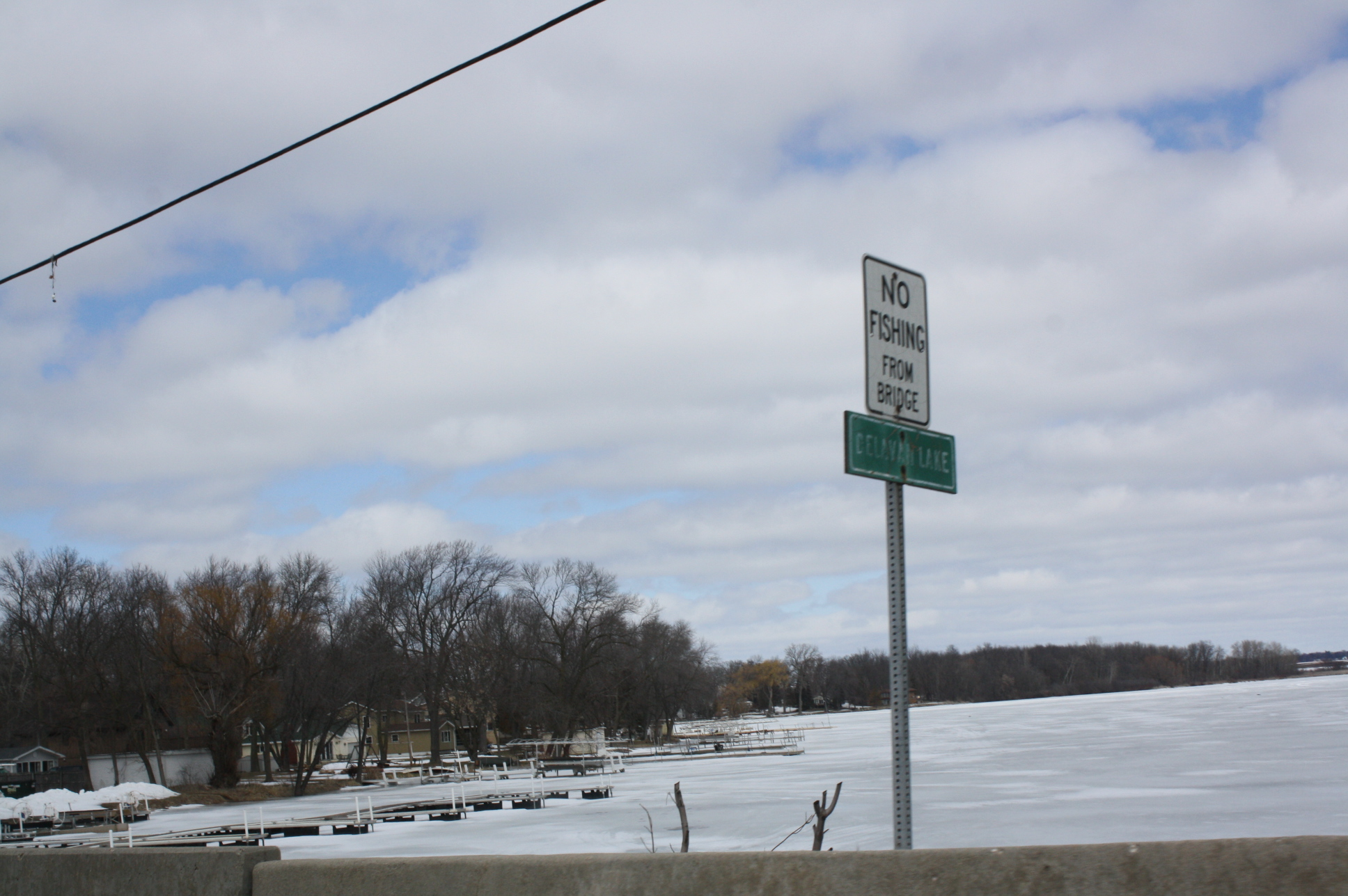 Delavan Lake (the lake) from Wisconsin Highway 50.